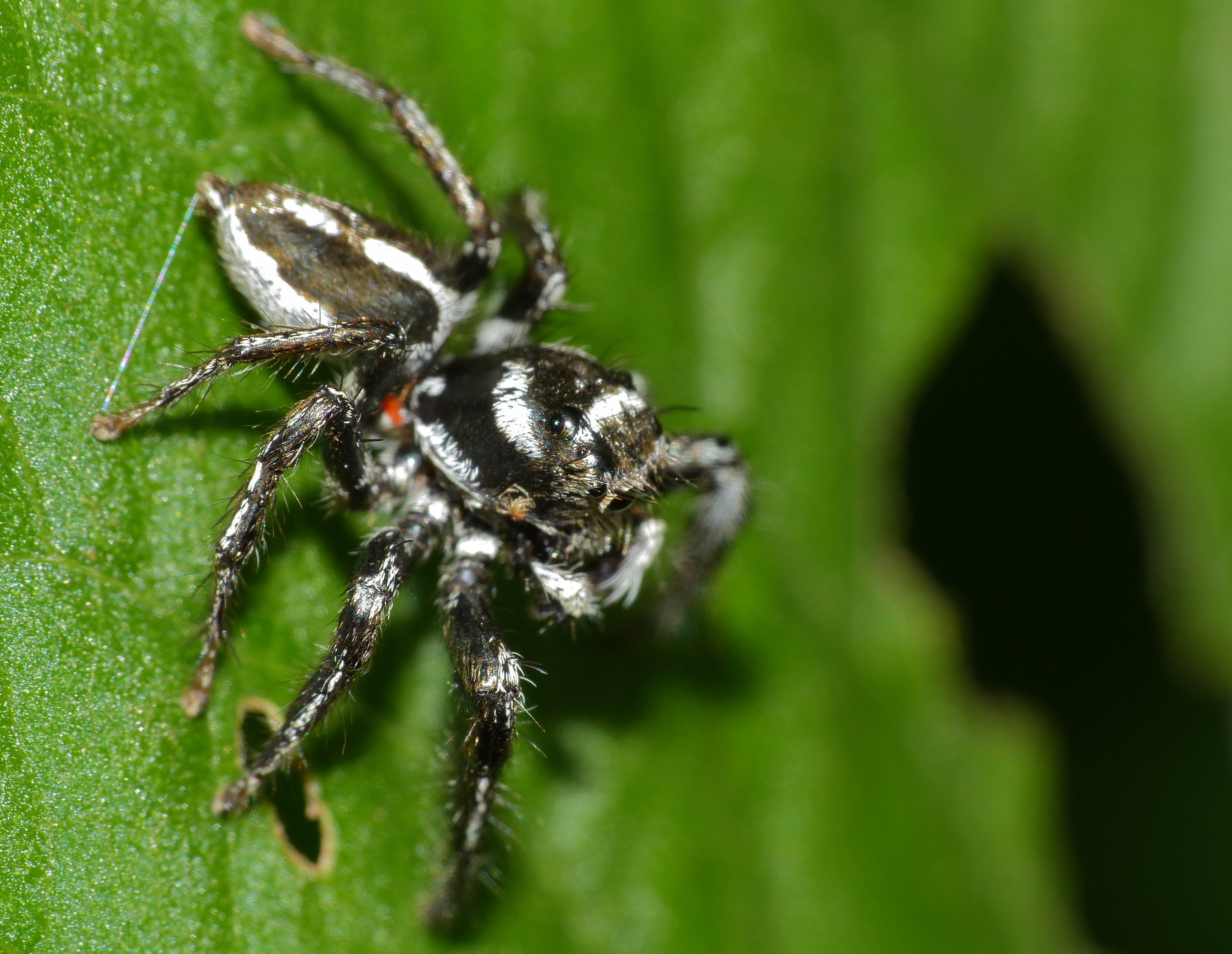 Tamboti Tented Camp, Kruger NP, SOUTH AFRICA